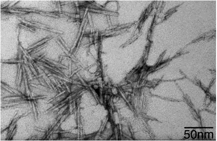 The process of moving cellulose nanomaterials (CNs) from a research endeavor to a commercial application took a big step forward in late July. Engineers and scientists at Oregon State University (OSU) worked with a local Ready-Mix concrete company, Knife River Corp., to conduct a full-scale test of cellulose nanocrystals (CNCs) in a concrete truck on 26 July. This was the first practical test of its kind for CNCs in concrete, following up on years of research and testing at smaller scales. The intent of the test pour was to ensure that adding CNCs to concrete resulted in a material that looks and acts like regular concrete, but with the improved material qualities that nanocellulose offers. The test is a significant milestone on the path to building a bridge using concrete with CNCs, which will be the first of its kind, in Siskiyou County, California. (POC is Marcus Taylor)